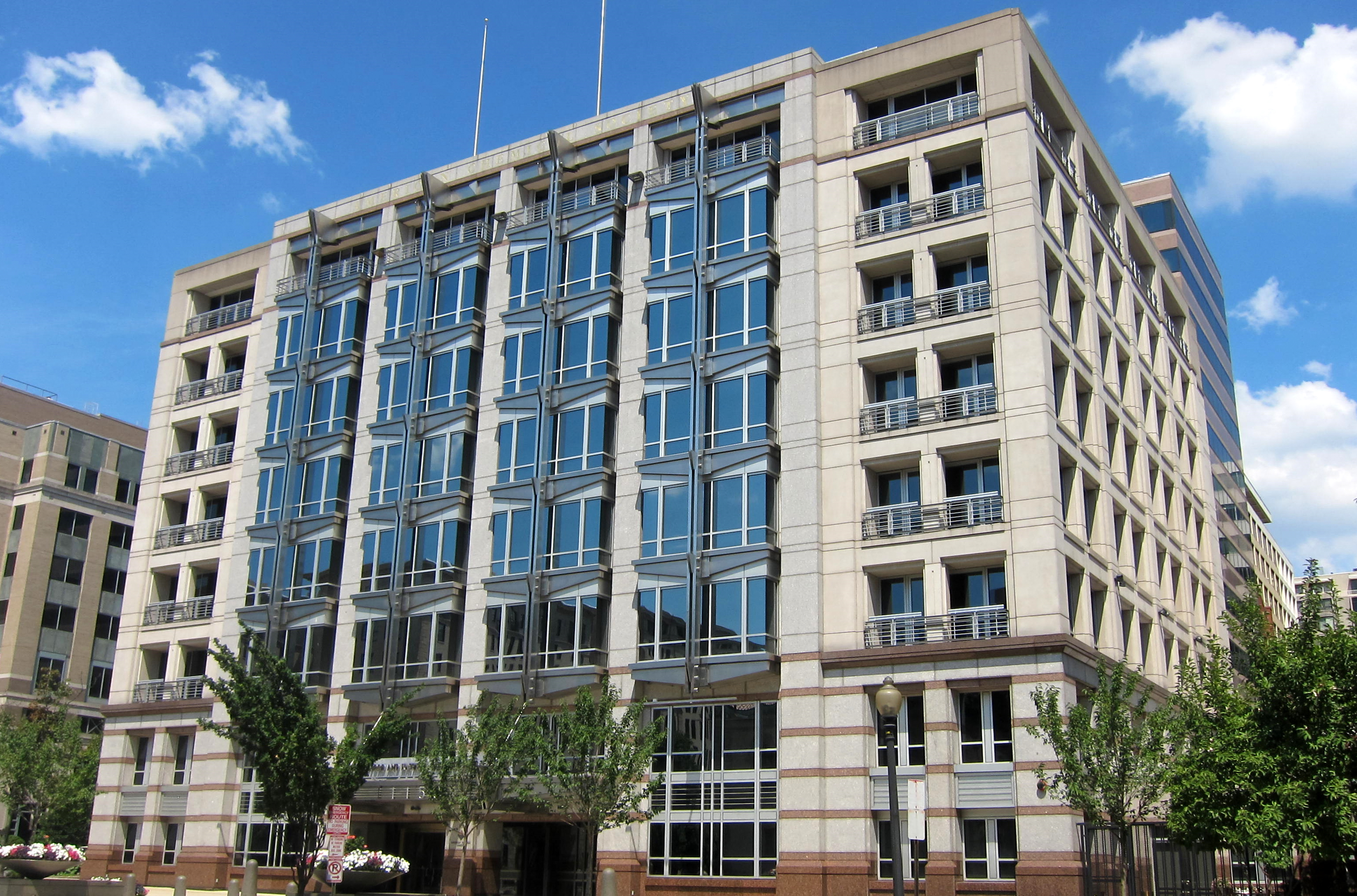 The American Chemical Society Building, also known as the Clifford and Kathryn Hach Building, located at 1155 16th Street, N.W., in downtown Washington, D.C. Built in 1959 (remodeled in 1995), the ten-story, postmodern high-rise was designed by architectural firm Structural Design Group, Ltd.